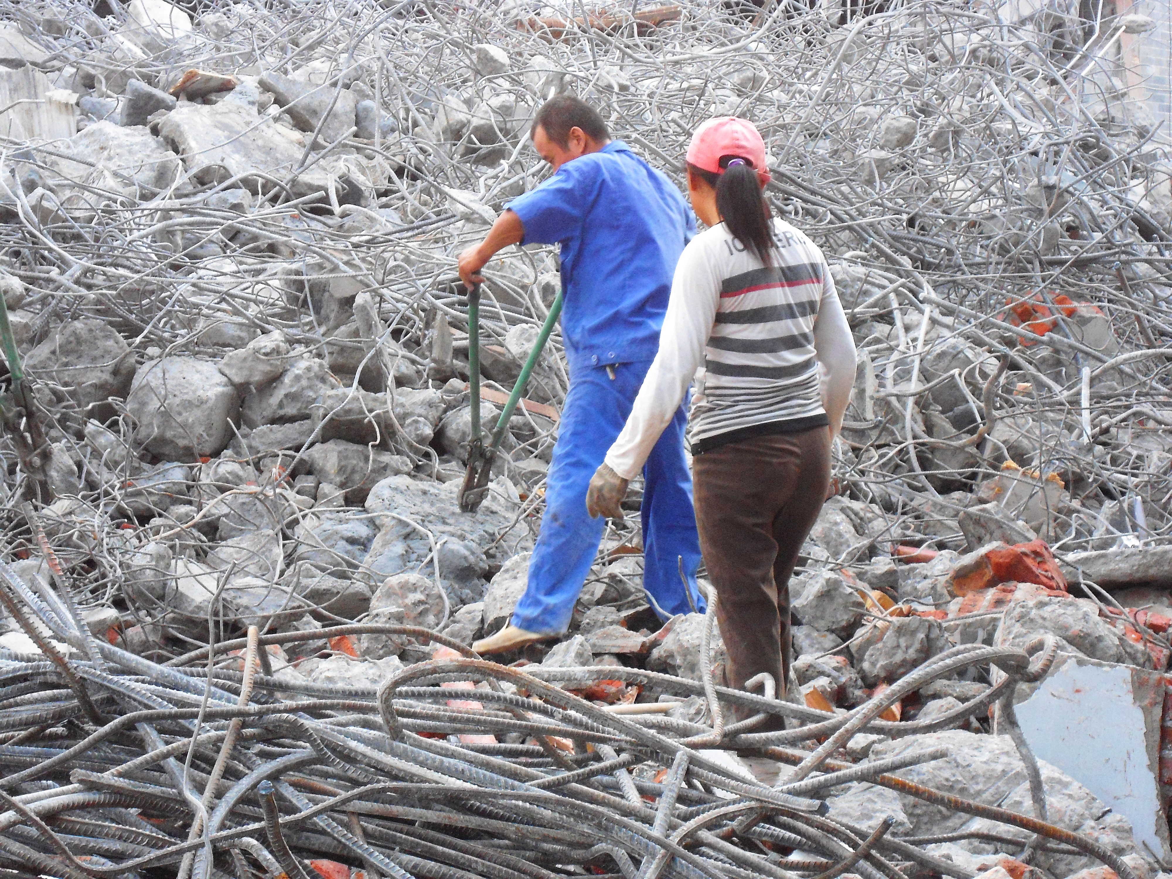 Workers extracting rebar and other metal from concrete rubble at building demolition site, Haikou City, Hainan Province, China.